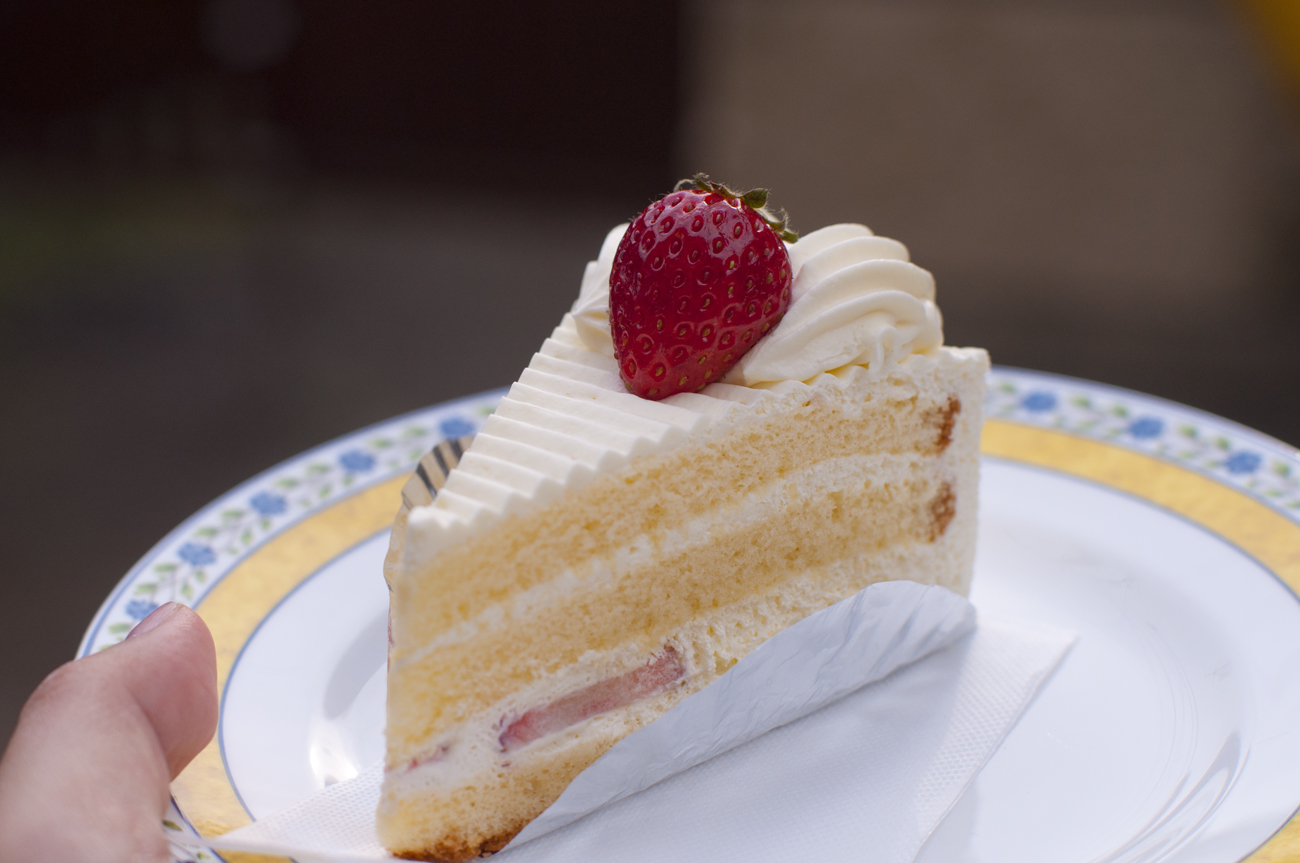 Patisserie of the factory direct management @オランジェ（orangé） 矢向工場直売店